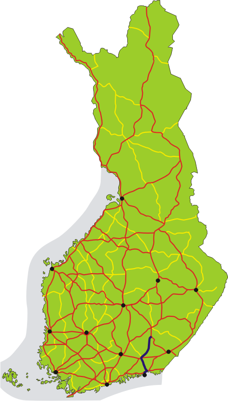 Map of the main road (highway) 15 in Finland, shown in dark blue. The other 1st class main roads (numbers 1–29) are red, 2nd class main roads (numbers 40–98) yellow. Black dots show the 12 biggest urban areas.